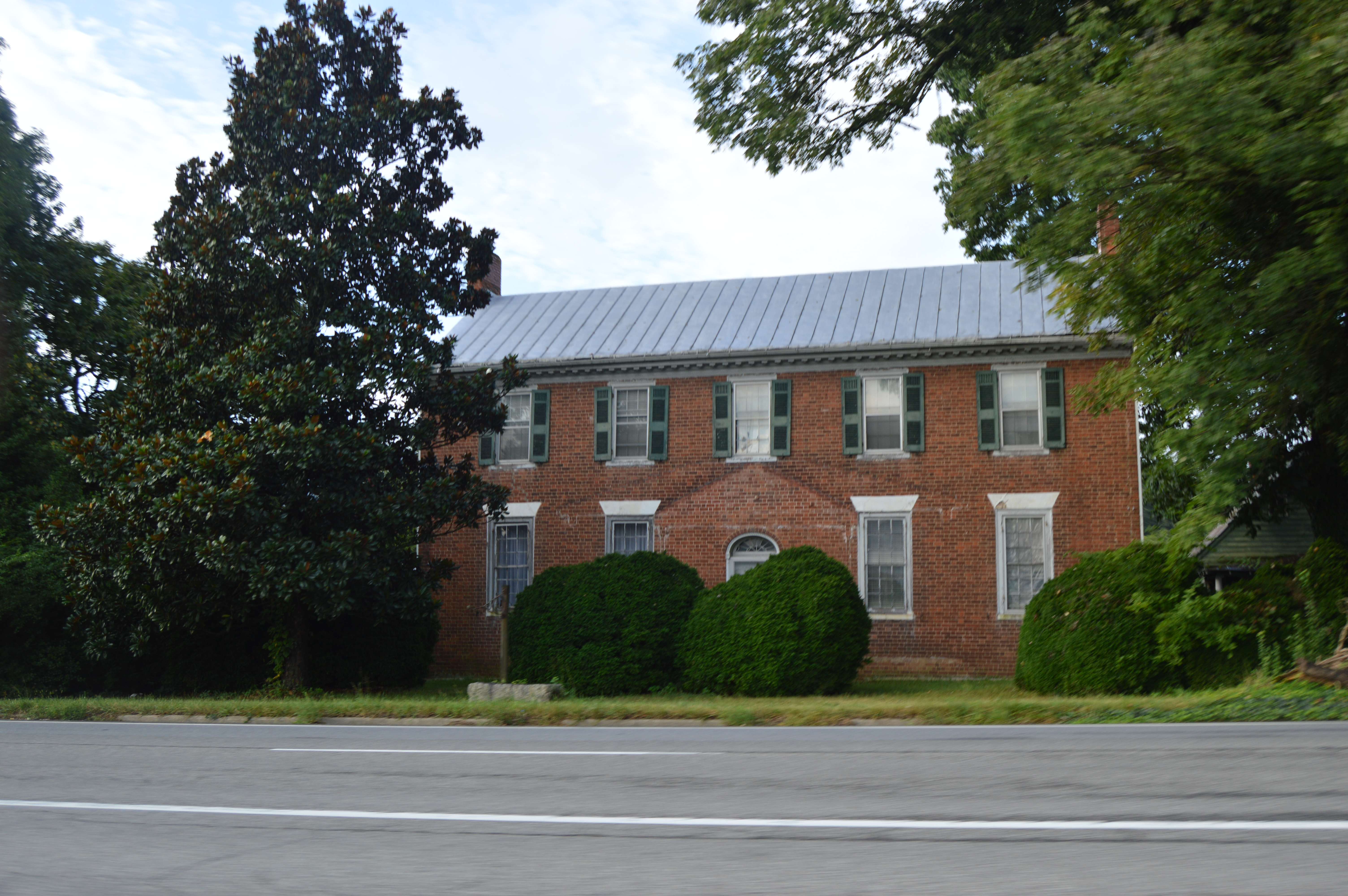 Front of Locust Level, located along U.S. Routes 221/460 near Montvale in Bedford County, Virginia, United States. Built in 1825, it is listed on the National Register of Historic Places.